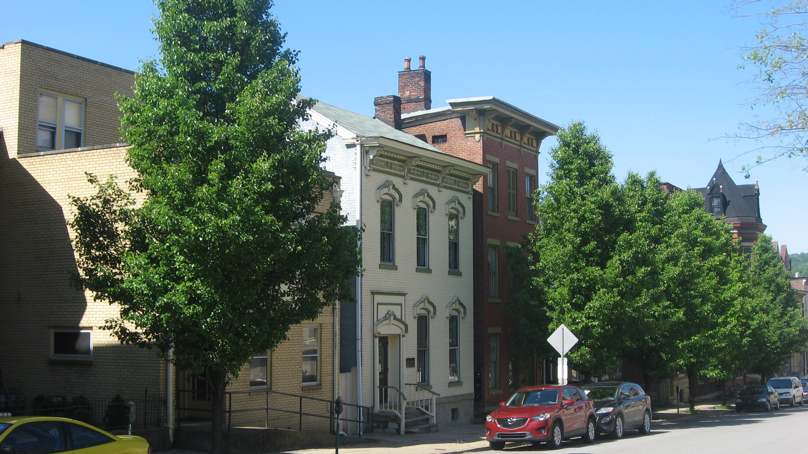 Houses on the southern side of Fourteenth Street east of Byron Street in Wheeling, West Virginia, United States. They are part of the East Wheeling Historic District, a historic district that is listed on the National Register of Historic Places.